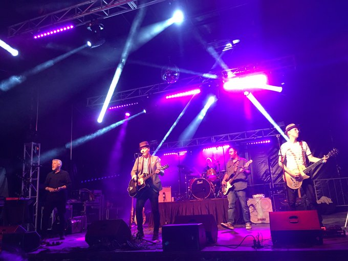 The Lowest of the Low performing at Montebello Park in St. Catharines in 2018.